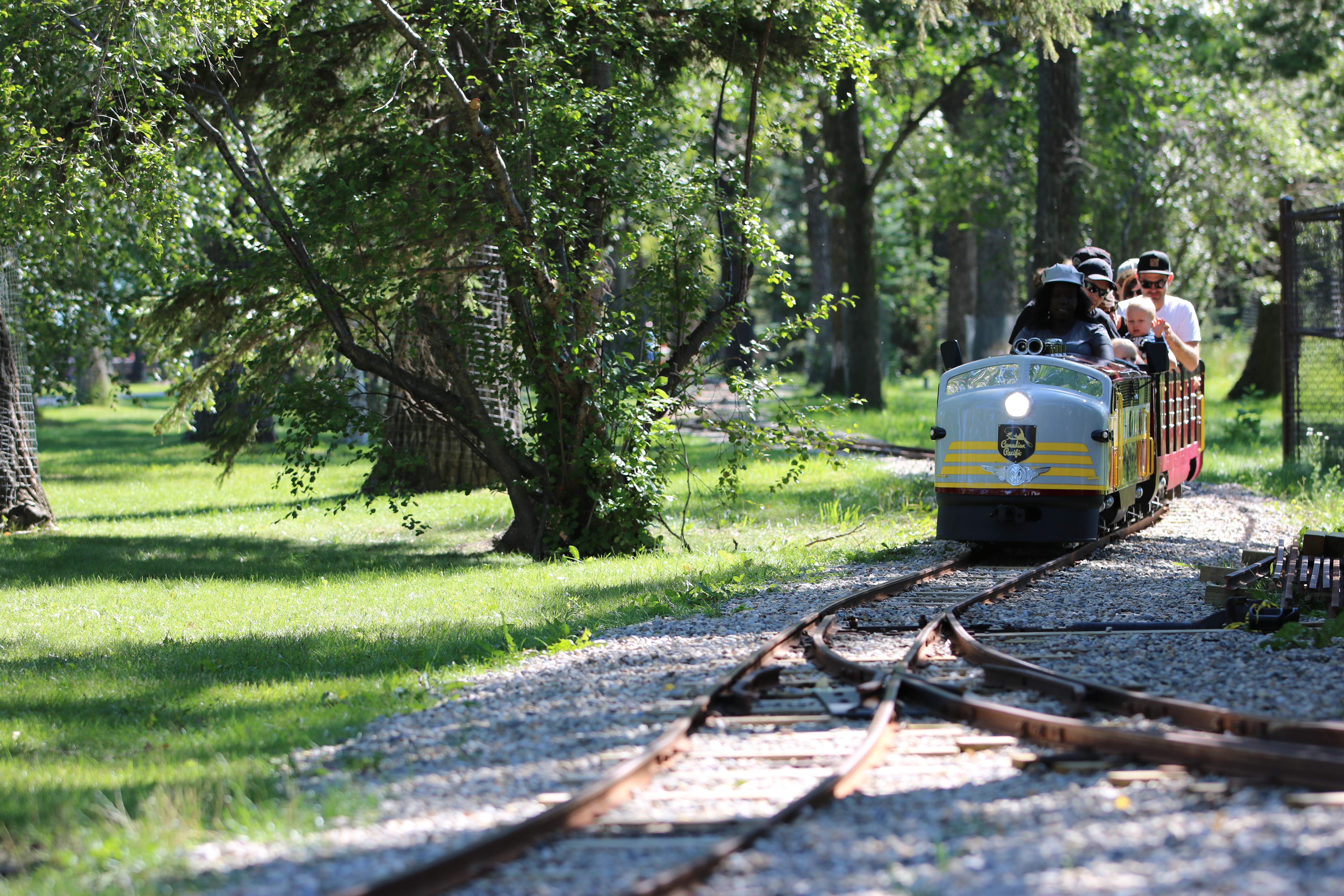 Miniature railway within Bowness Park, in Calgary, Alberta (Canada), reopened in July 2016 after repairs to track damaged by flooding in 2013.